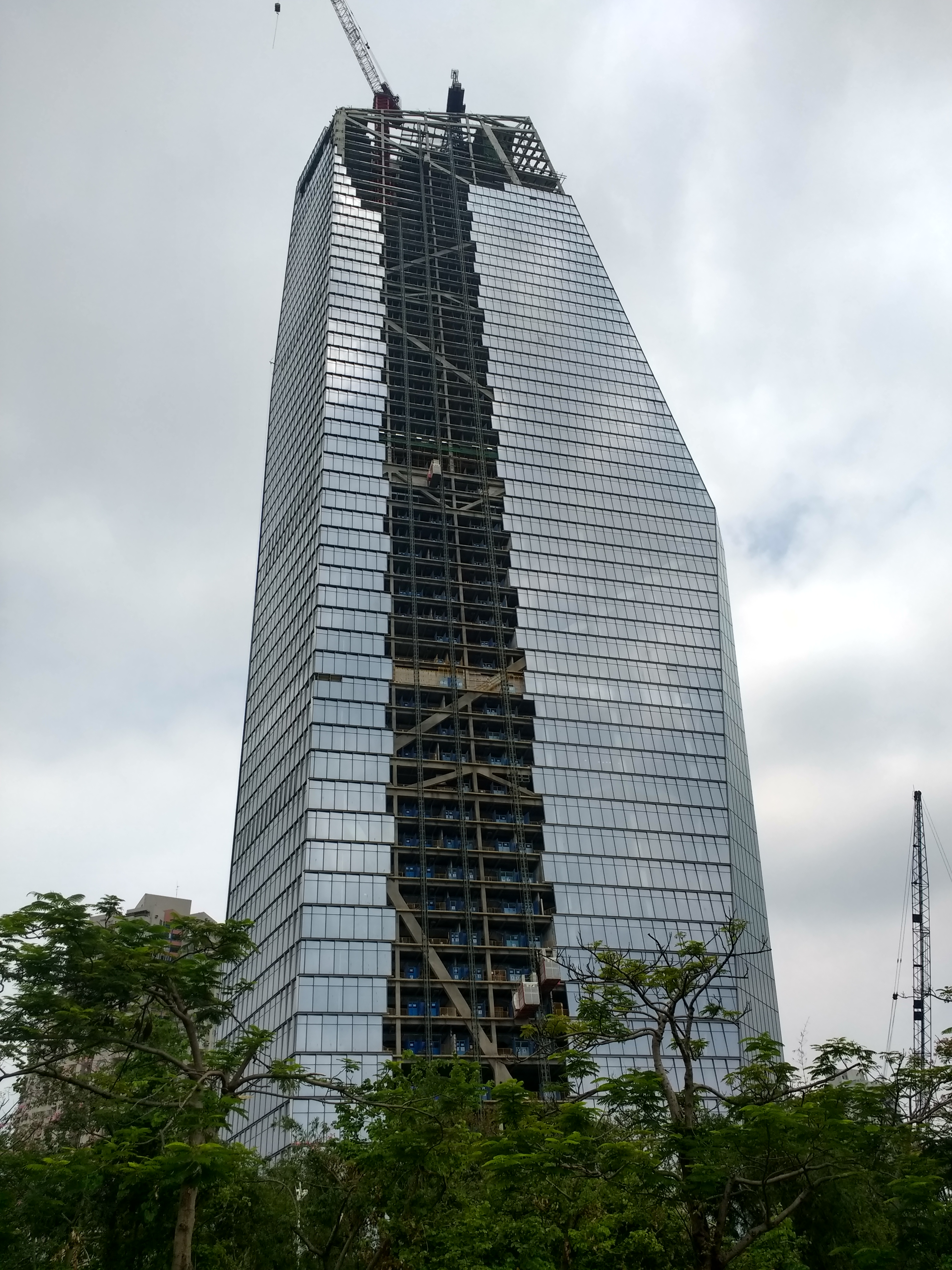 OCT Tower under construction in Shenzhen, China - 2018-10-12.